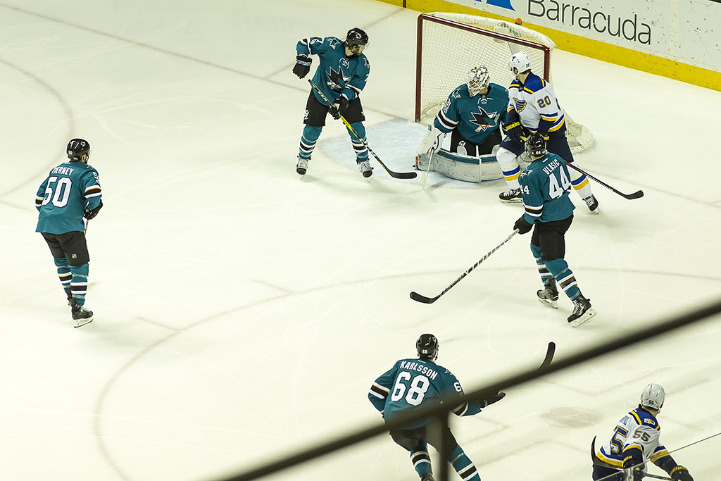 Colton Parayko scored a power-play goal during a game against the San Jose Sharks